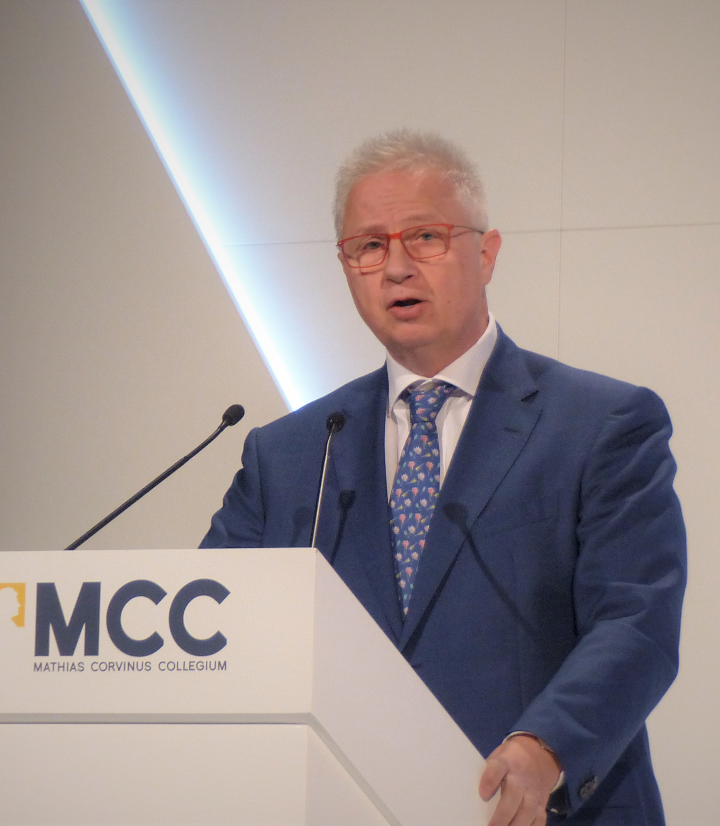 Trócsányi László. MCC Budapest Summit on Migration. The Biggest Challenge of our Time? Várkert Bazár, Central Europe.